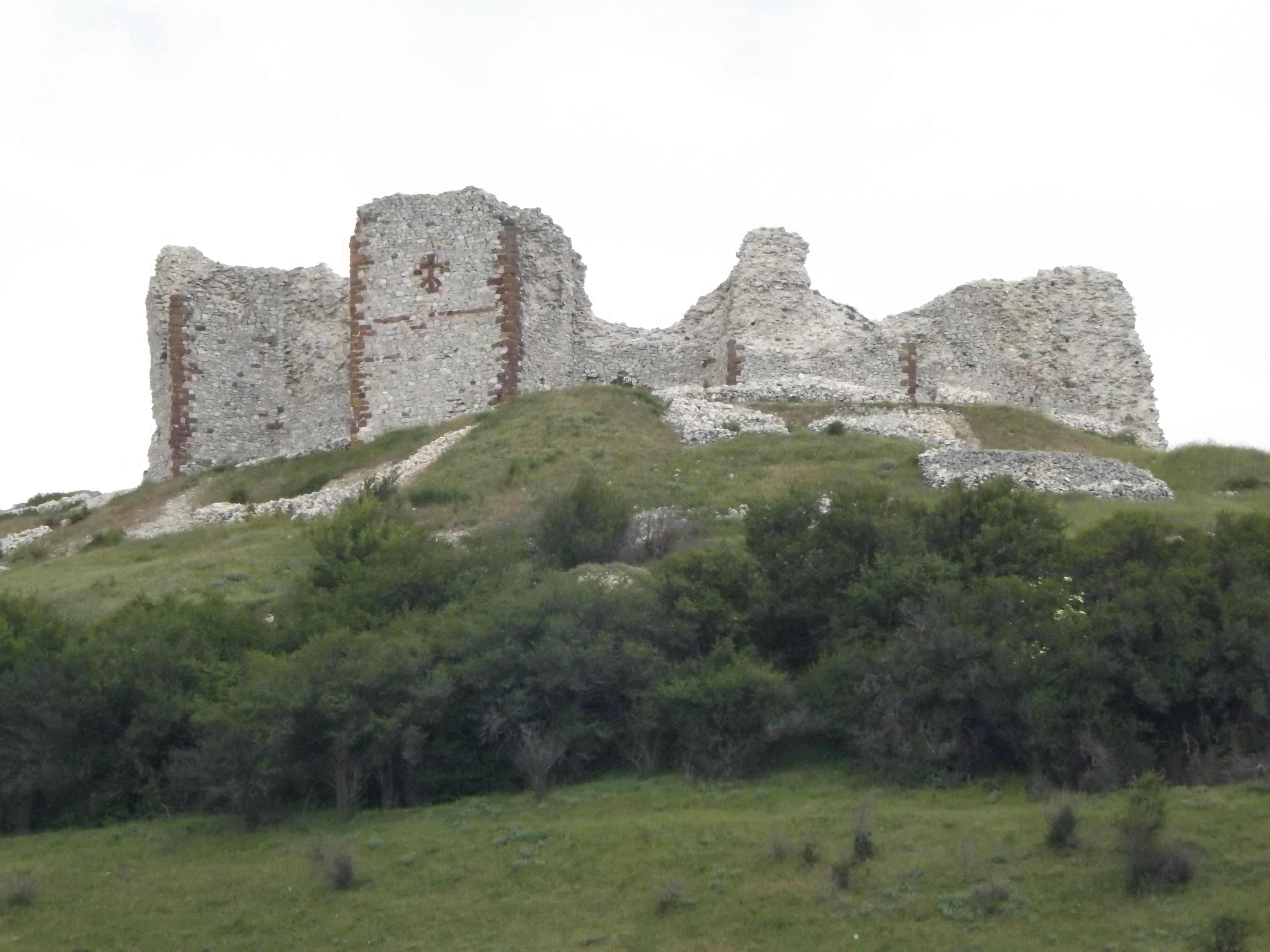 Novoberdo Castle, Novoberdo, Kosovo